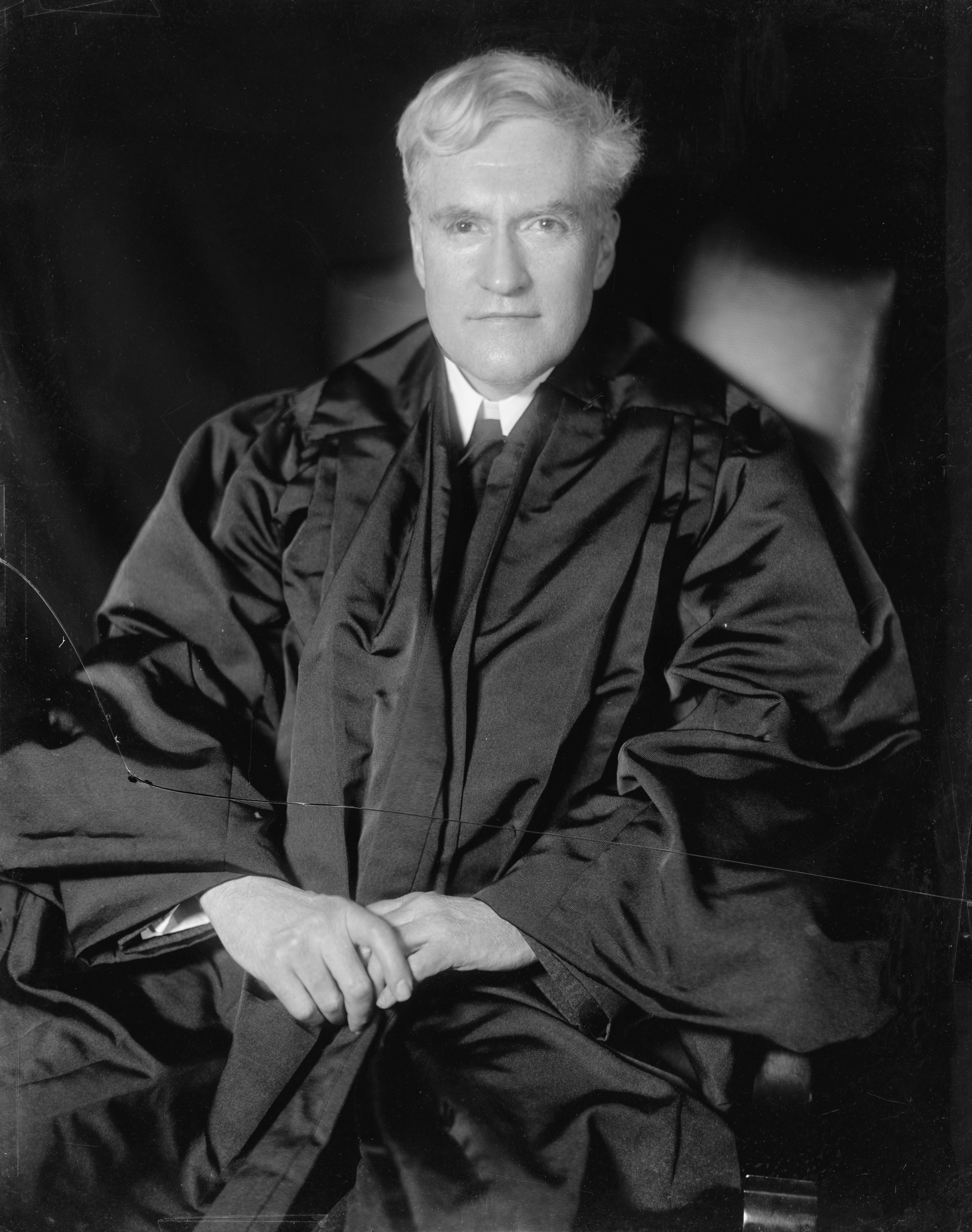 Justice Benjamin N. Cardozo